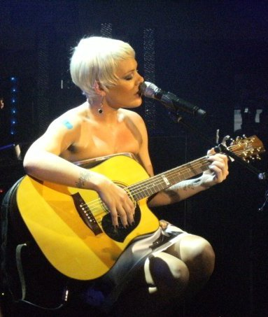 P!nk at her secret London gig to promote the Funhouse album, trying her hand at the guitar.